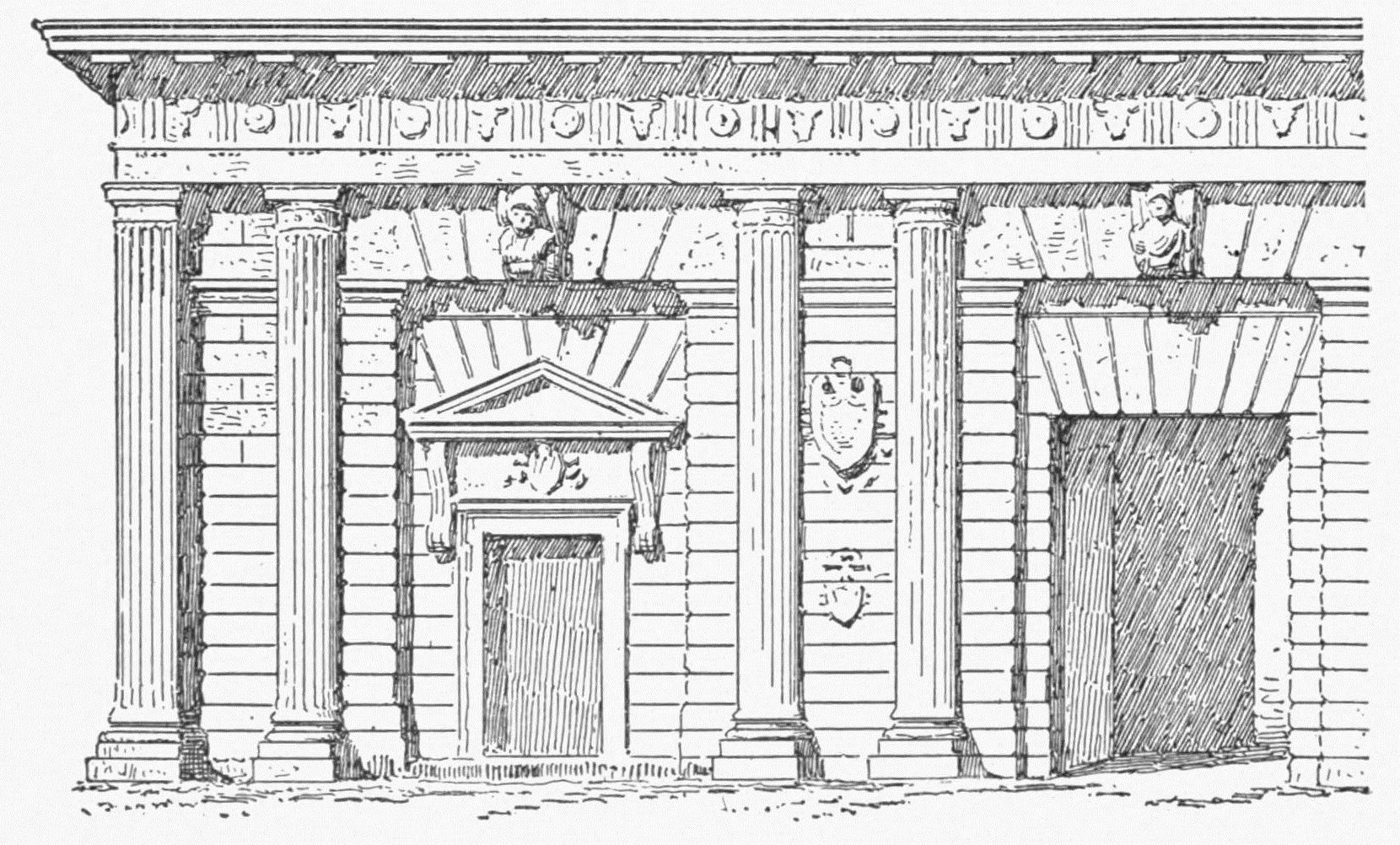 Scan from book 'Character of Renaissance Architecture'